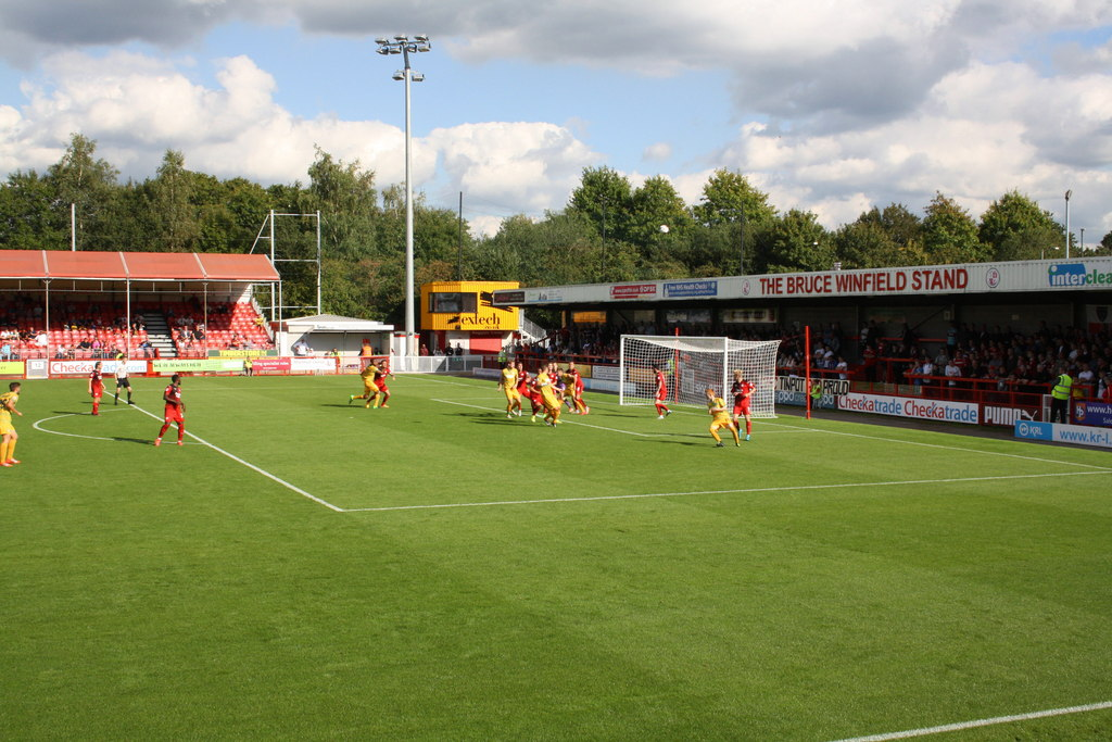 Crawley Town defend a Yeovil Town corner